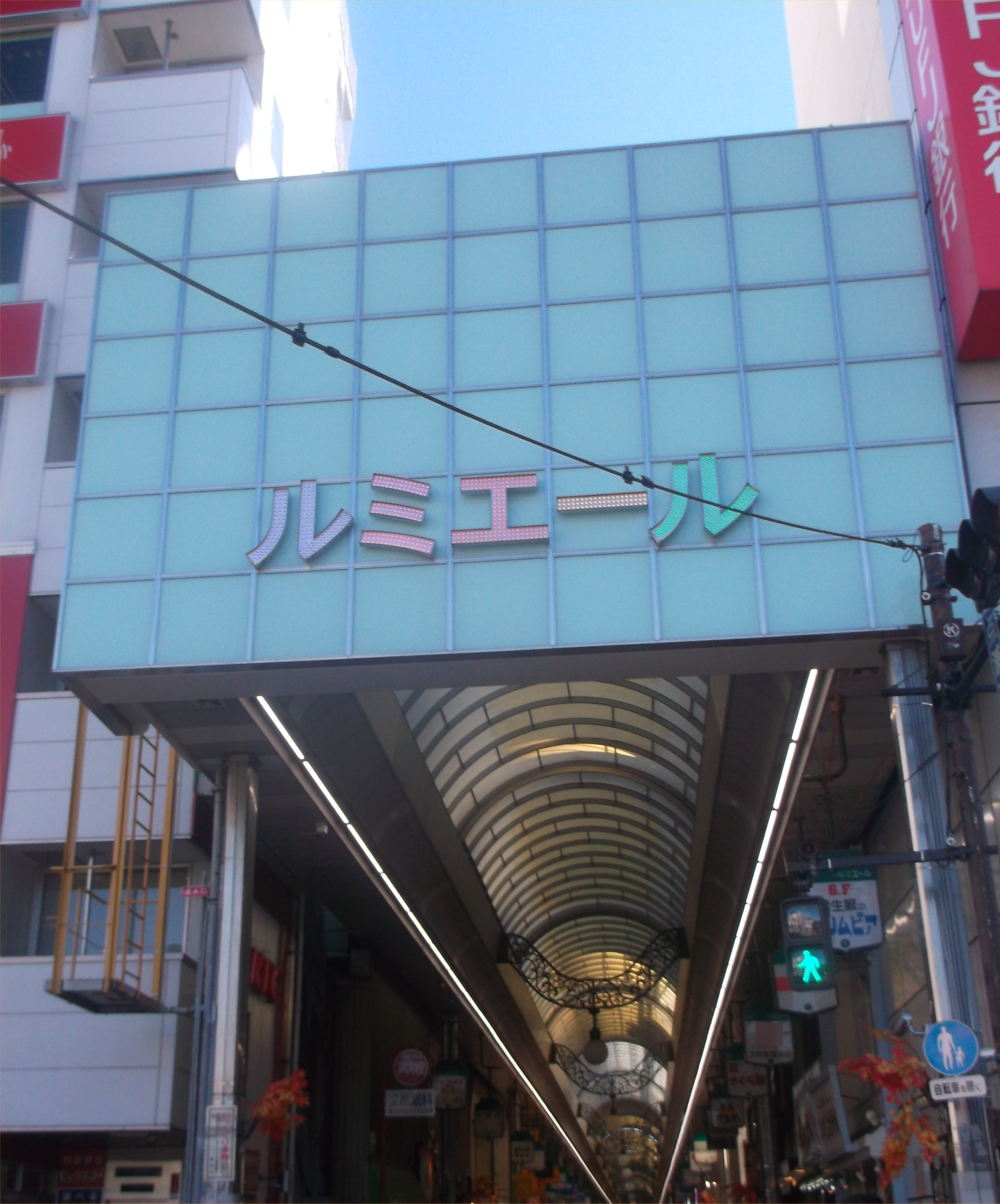 A photo of Shinkoiwa Lumiere shopping street,Shinkoiwa,Katsushika-ku,Tokyo,Japan.